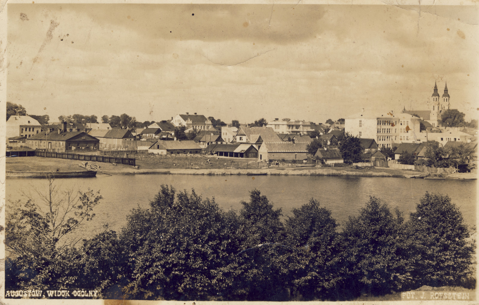 View of Augstów and river Netta, Poland.